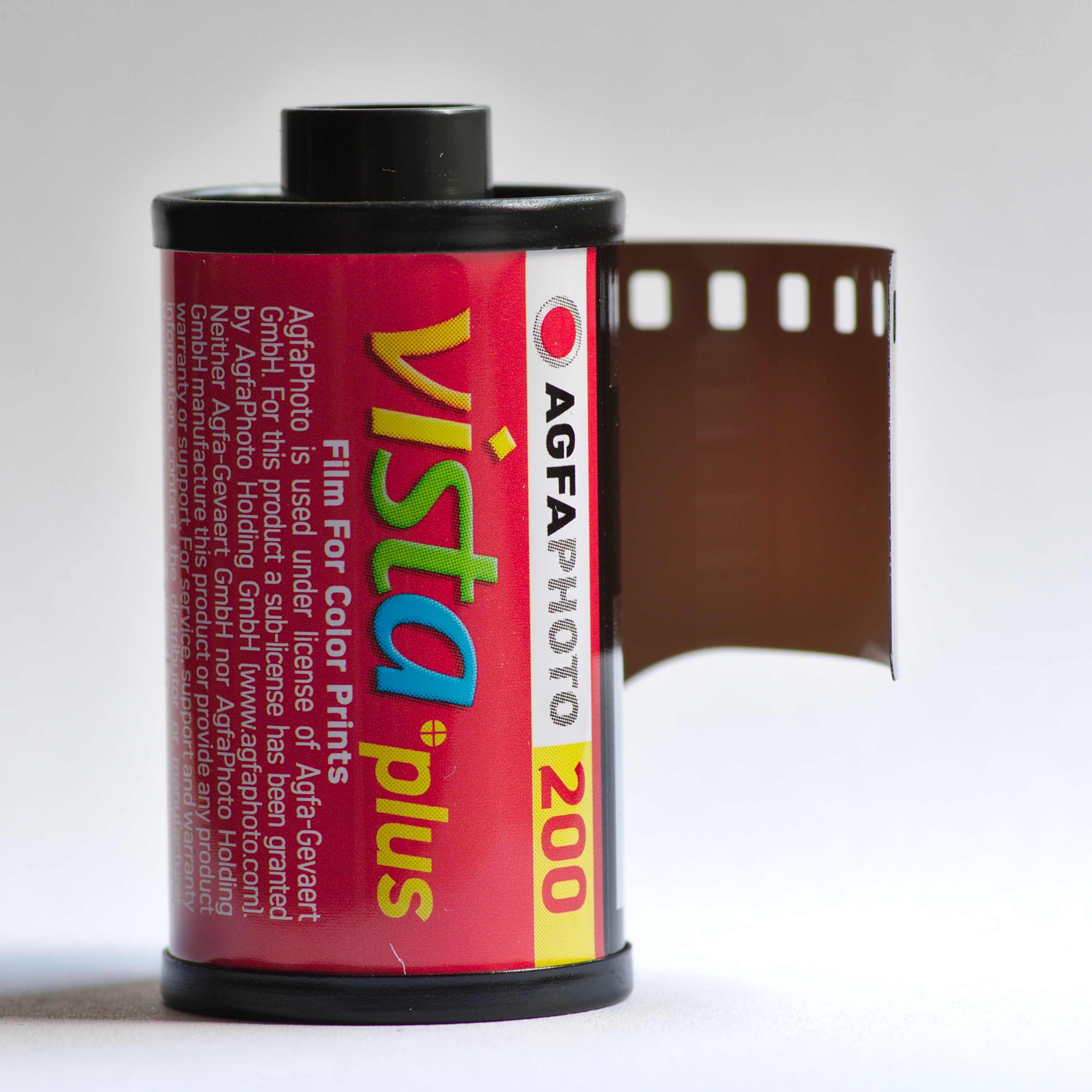 Agfaphoto Vista plus 200 speed C-41 consumer film in 135 format. This is new stock from 2017 (expiring 2018) and not the same as older Films sold under similar names. It is not being produced by Agfa (see backside), but by an unnamed company in Japan and distributed under the Agfa brand under license by Lupus Imaging. Some assume it is actually re-badged Fuji C200. The DX cartridge barcode of this specimen is 806254.